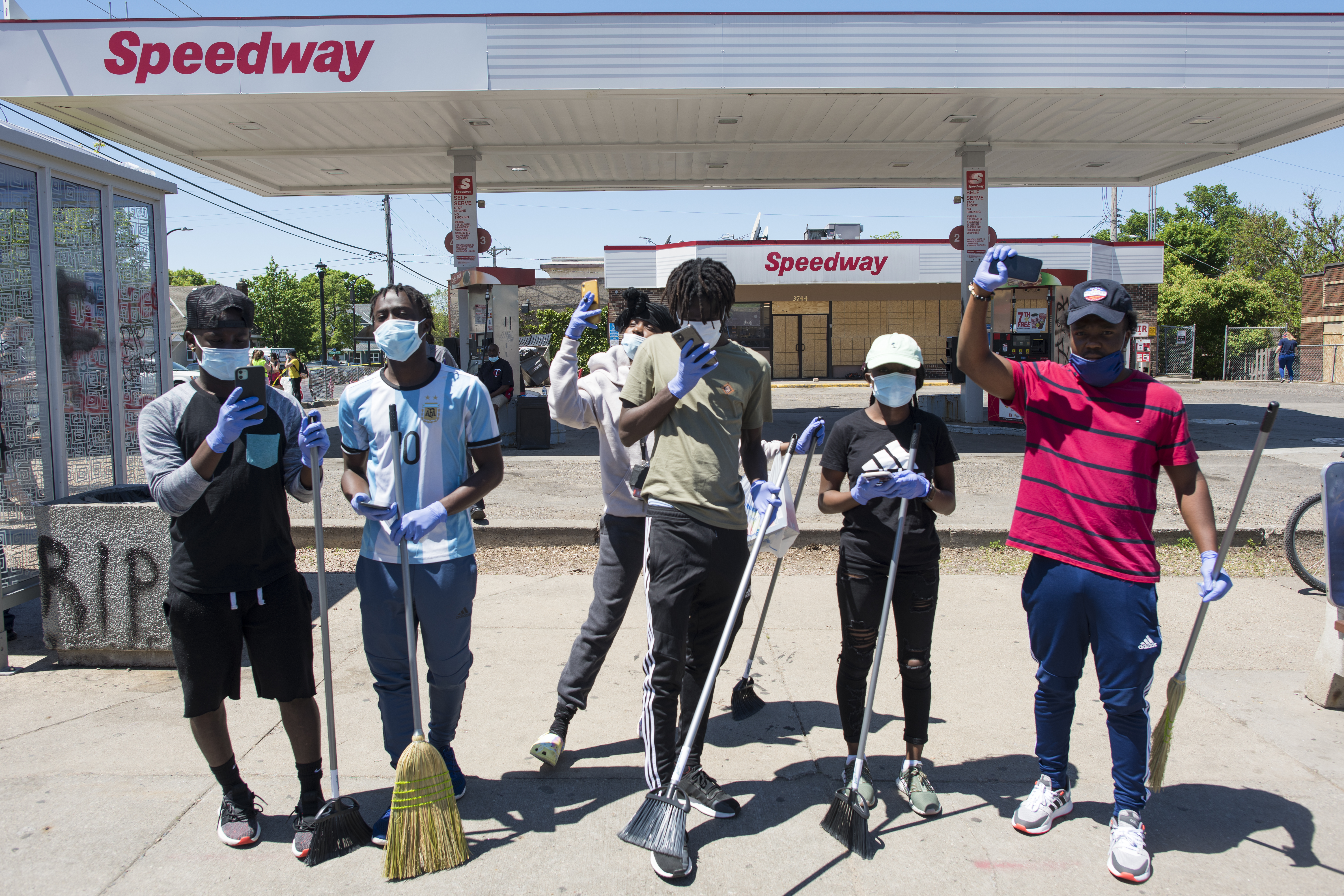 Minneapolis, Minnesota May 30, 2020 12:30pm On May 25, Minneapolis Police officers arrested George Floyd, handcuffed him, then held him down on his stomach while Derek Chauvin put a knee on his neck as Floyd pleaded for breath. George Floyd died soon after. The four officers at the scene have been fired. Derek Chauvin has been arrested and charged with 3rd degree murder and 2nd degree manslaughter. 2020-05-30 This is licensed under the Creative Commons Attribution License. Give attribution to: Fibonacci Blue